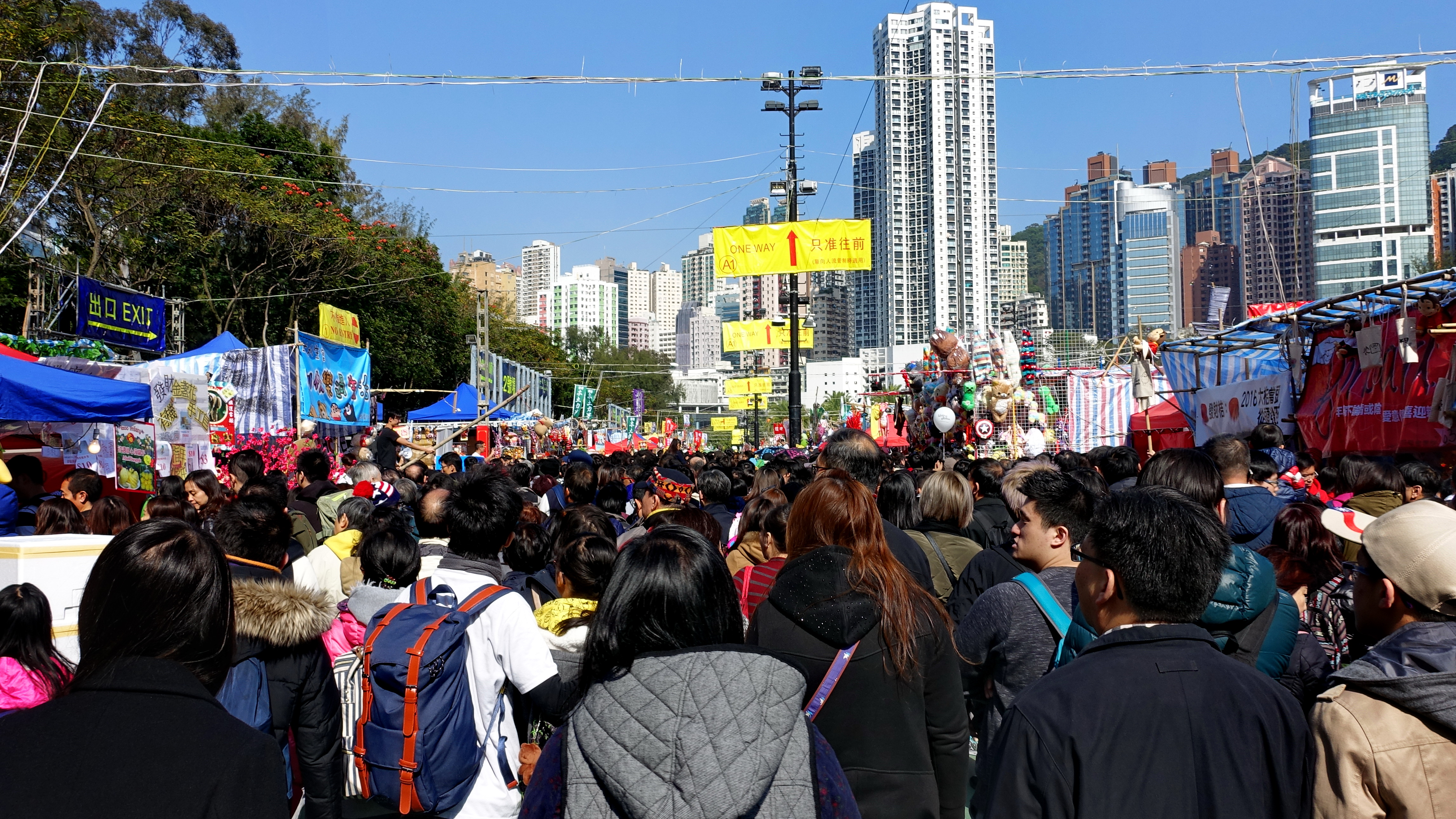 2016 Lunar New Year Fair at the Victoria Park, Causeway Bay, Hong Kong.